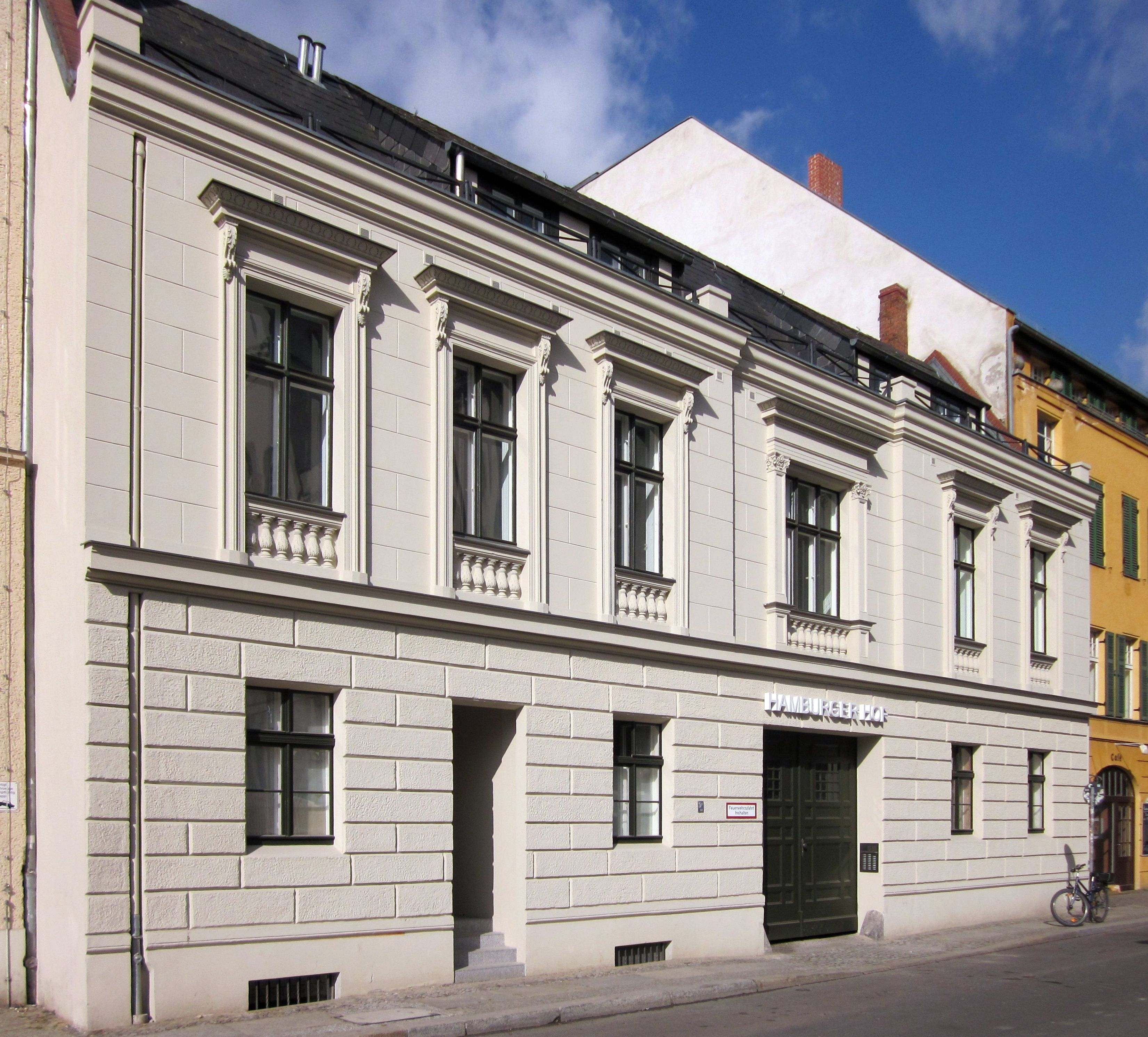 Town house Große Hamburger Straße No. 17 in Berlin-Mitte. The house was built in 1828; small trade buildings in the rear part of the lot were aded in 1870 and 1885 respectively. The whole colmplex has been designated as a historic landmark.